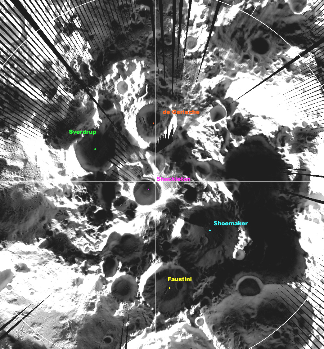 de Gerlache Crater, Faustini Crater, Shackleton Crater, Shoemaker Crater, Sverdrup Crater, Moon South Pole, Lunar South Pole